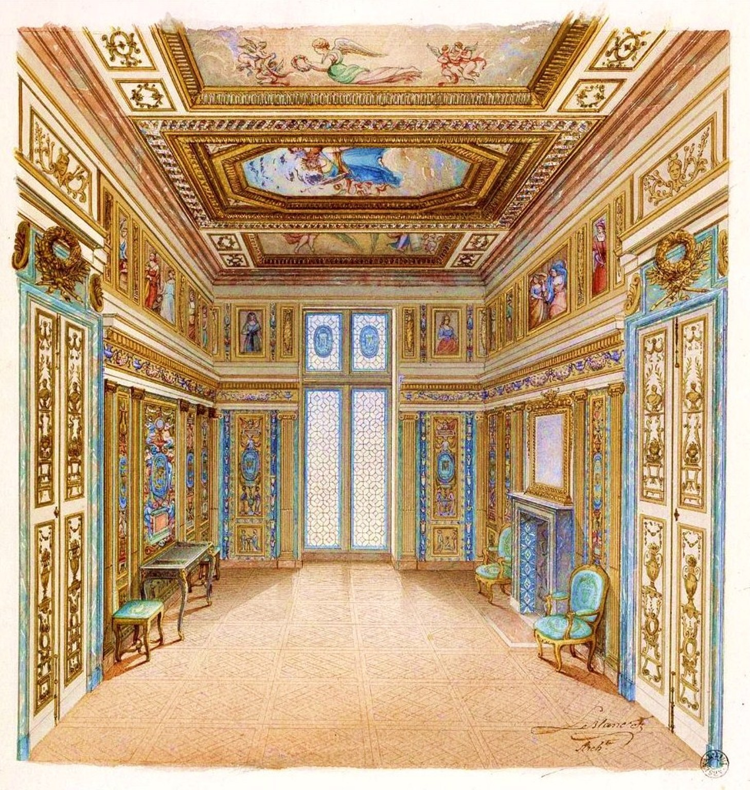 Ferdinand Félix Clément Le Blanc was born on 29 September 1820 in Évry-sur-Seine (Évry-Petit-Bourg in 1881) in the former department of Seine-et-Oise and died in Paris on 25 May 1905 at his home on Quai Conti at the Palace of the Institute in the 6th arrondissement. He married on 27 July 1857 in the former 2nd arrondissement of Paris, Marie Amélie Célestine Basset, the sister of Charles Basset dit Adrien Robert, writer, journalist and French translator. Ferdinand Le Blanc is an architectural engineer who will become a government architect, civil buildings. he was awarded the title of Officier de l'Instruction publique (Officer of Public Instruction) by the French government and directed the restoration of the apartments of the Maréchale de la Meilleraye at the Palais de l'Arsenal from 1867 to 1868. Ferdinand Le Blanc is also the author of several articles on Parisian town planning.